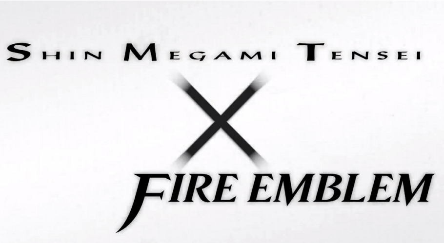 Shin Megami Tensei X Fire Emblem's logotype